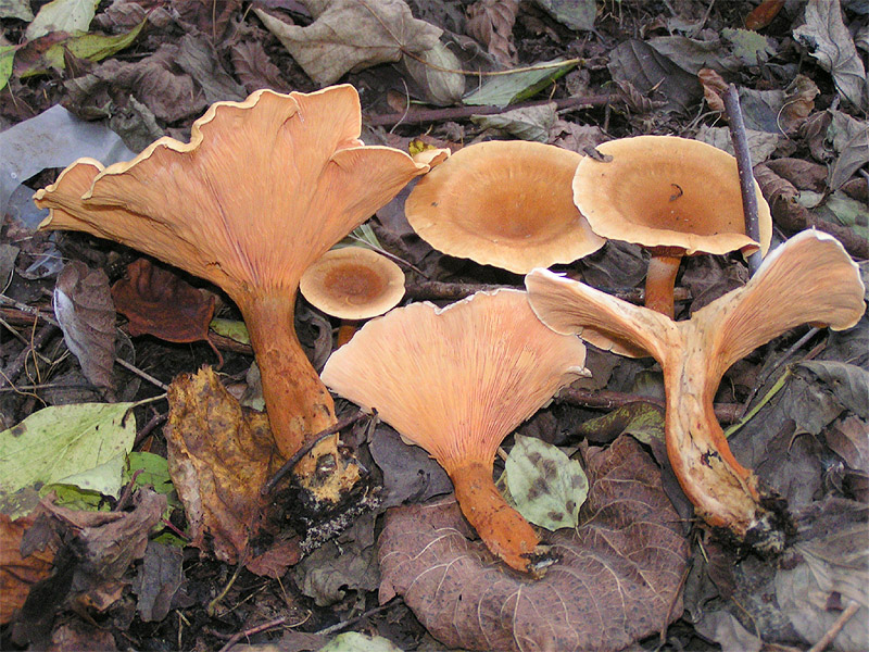 Lepista inversa, syn. Clitocybe inversa - Tricholomataceae